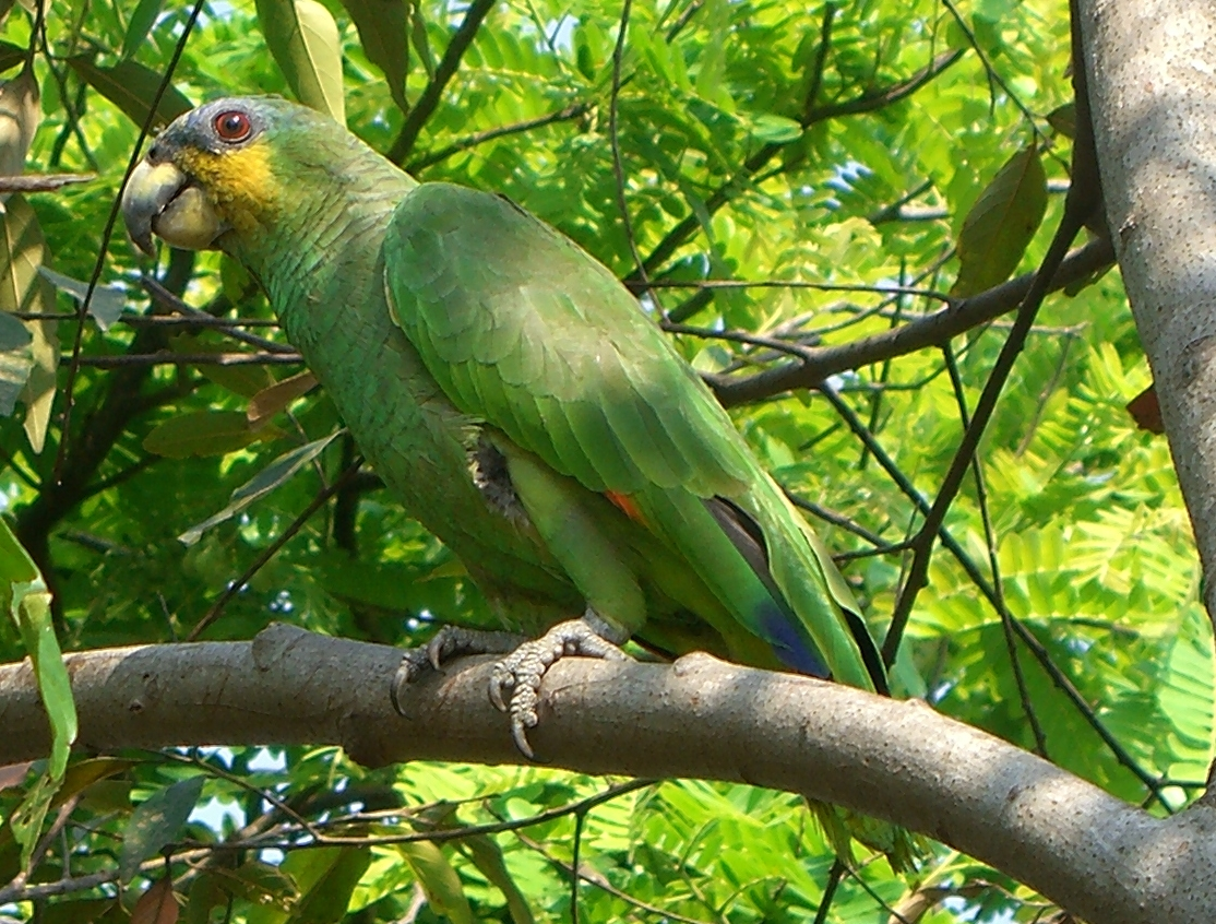 Description: Orange-winged Amazon (Amazona amazonica) (wild)